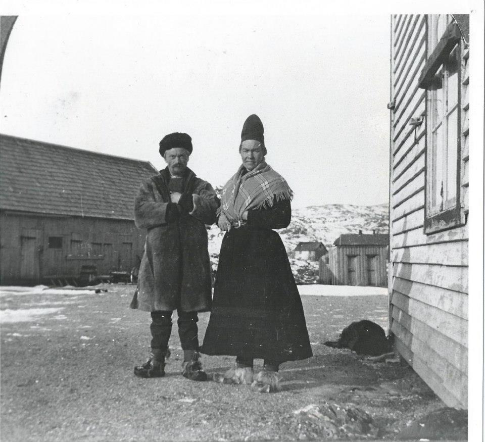 Nils Mattias Nilsen Vesterfjell (1857-–1936) and his wife Serine Kristine Olea Olausdatter (1868-?), sami people of Bindalen, Nordland, Norway. Photo dated ca 1910